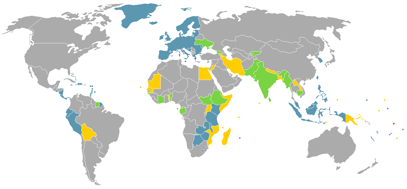 Visa requirements for Tuvaluan citizens Tuvalu Visa-free Visa on arrival eVisa Visa required